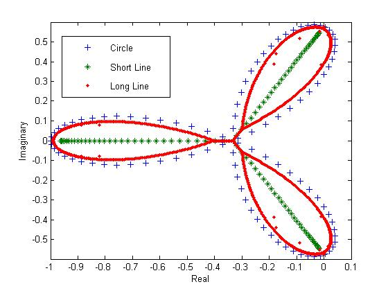 A plot in the complex plane of the eigenvalues of spatial Lotka-Volterra circle, short line, and long line systems. The fact that a long line is indistinguishable from a circle to the species in far from the ends may explain why the eigenvalues of a long line become like those of a circle.